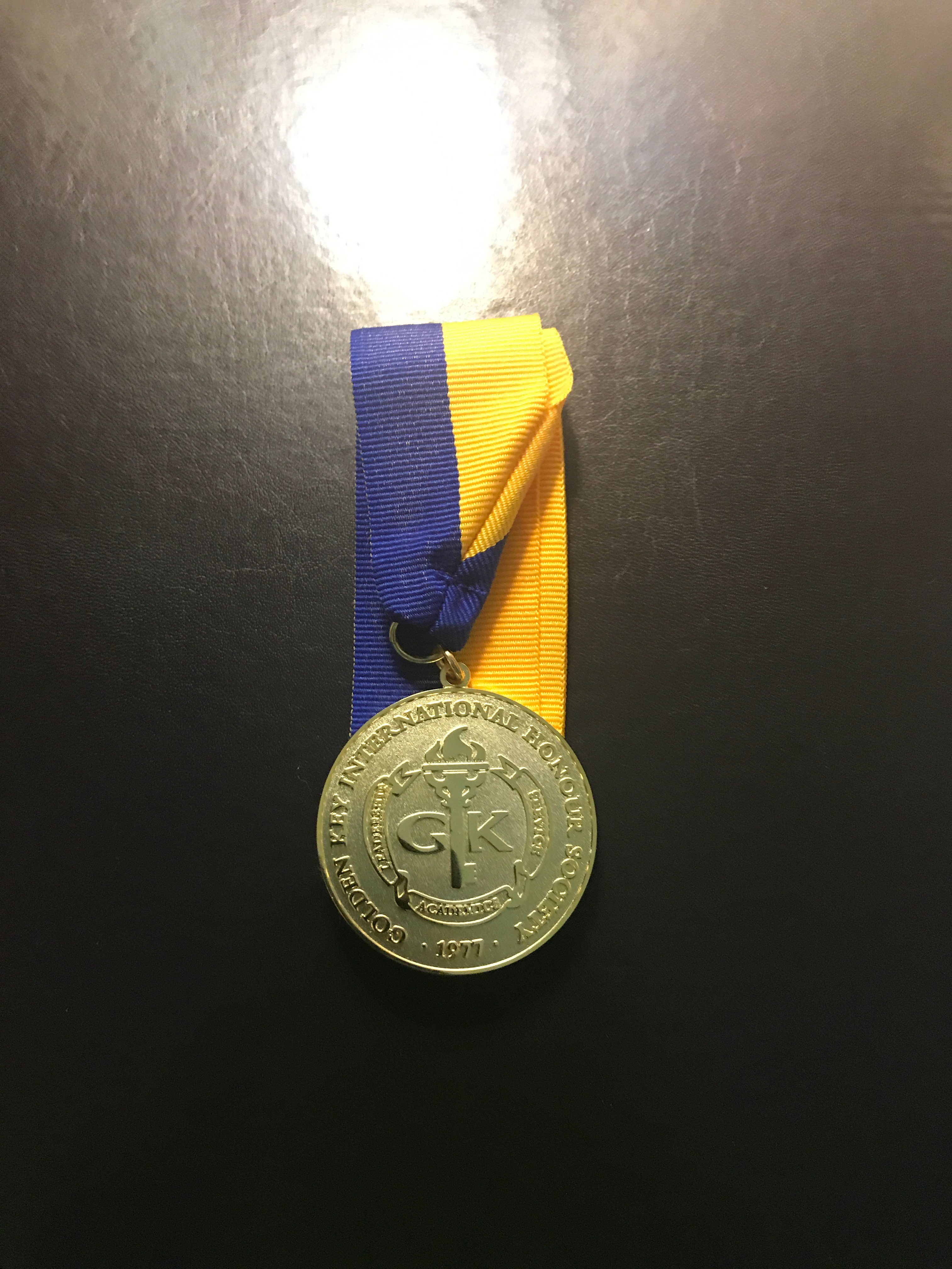 Golden Key Medallion used for graduation/recognition.